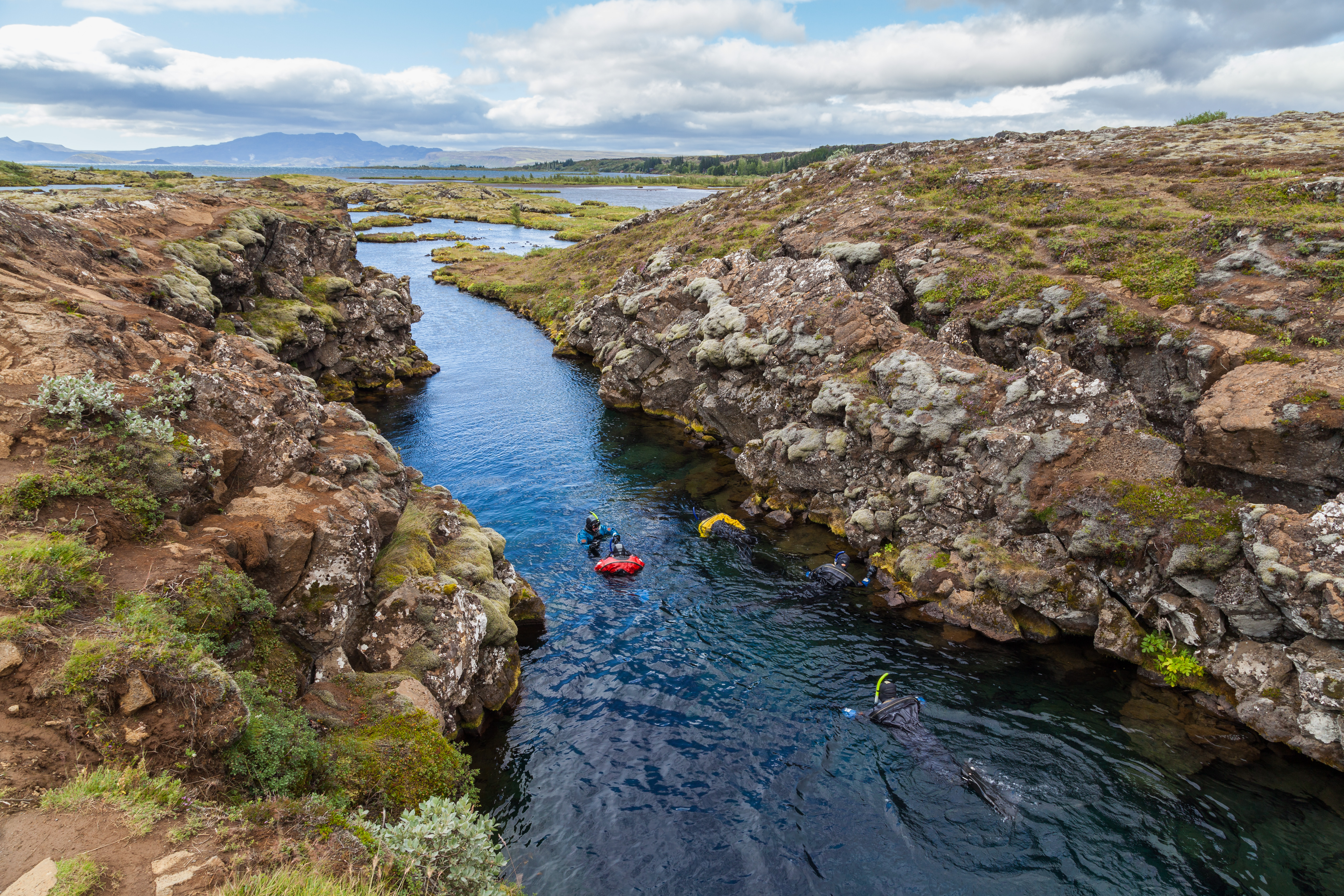 Silfra canyon, Þingvellir National Park, Suðurland, Iceland